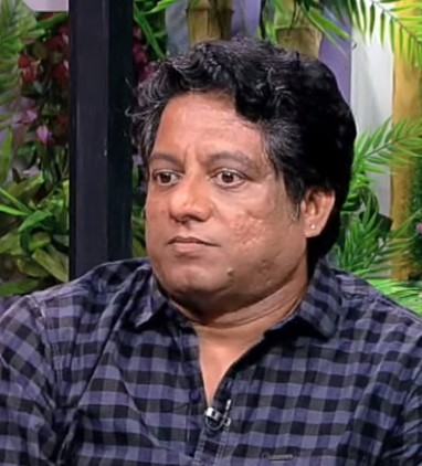 Bagavathi Perumal interview with VJ Anjana